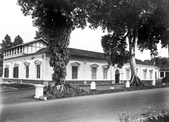 The Zoological Museum at Buitenzorg